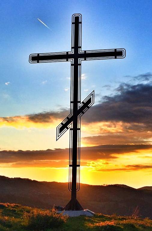 The Cross of Village Solishta